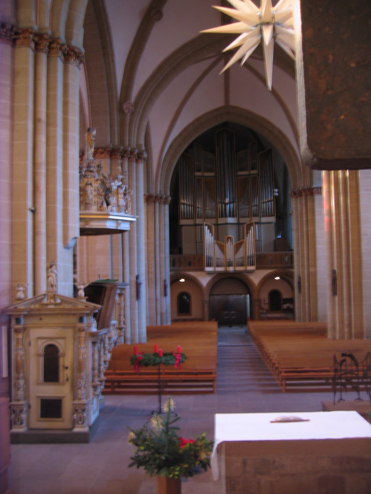 Interior of Herford 'abbatiale in Herford, District of Herford, North Rhine-Westphalia, Germany.